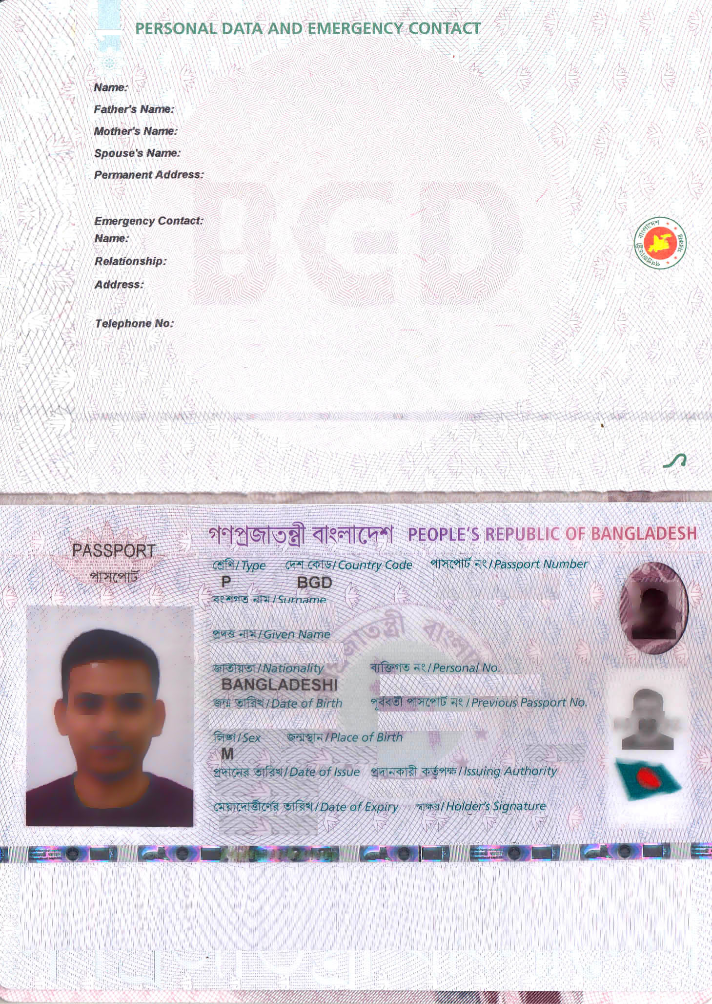 Bio and information page of Bangladesh e-passport